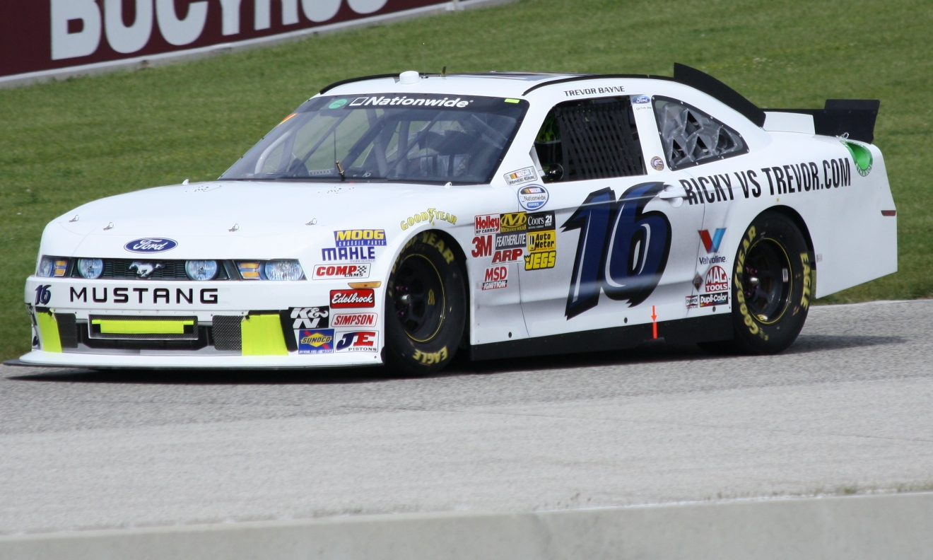 NASCAR driver Trevor Bayne racing his stock car at Road America at the 2011 Bucyros 200 Nationwide Series race.